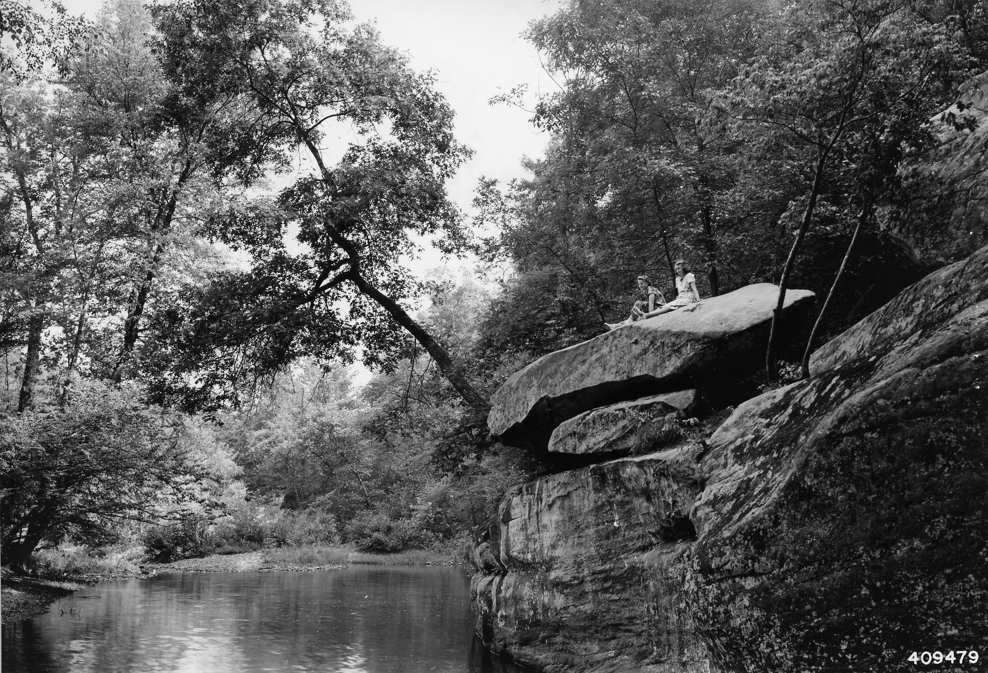 Scope and content: Original caption: Scene at Bell Smith Springs Recreation Area.